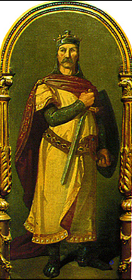 Sancho Ramirez of Aragon and Navarre